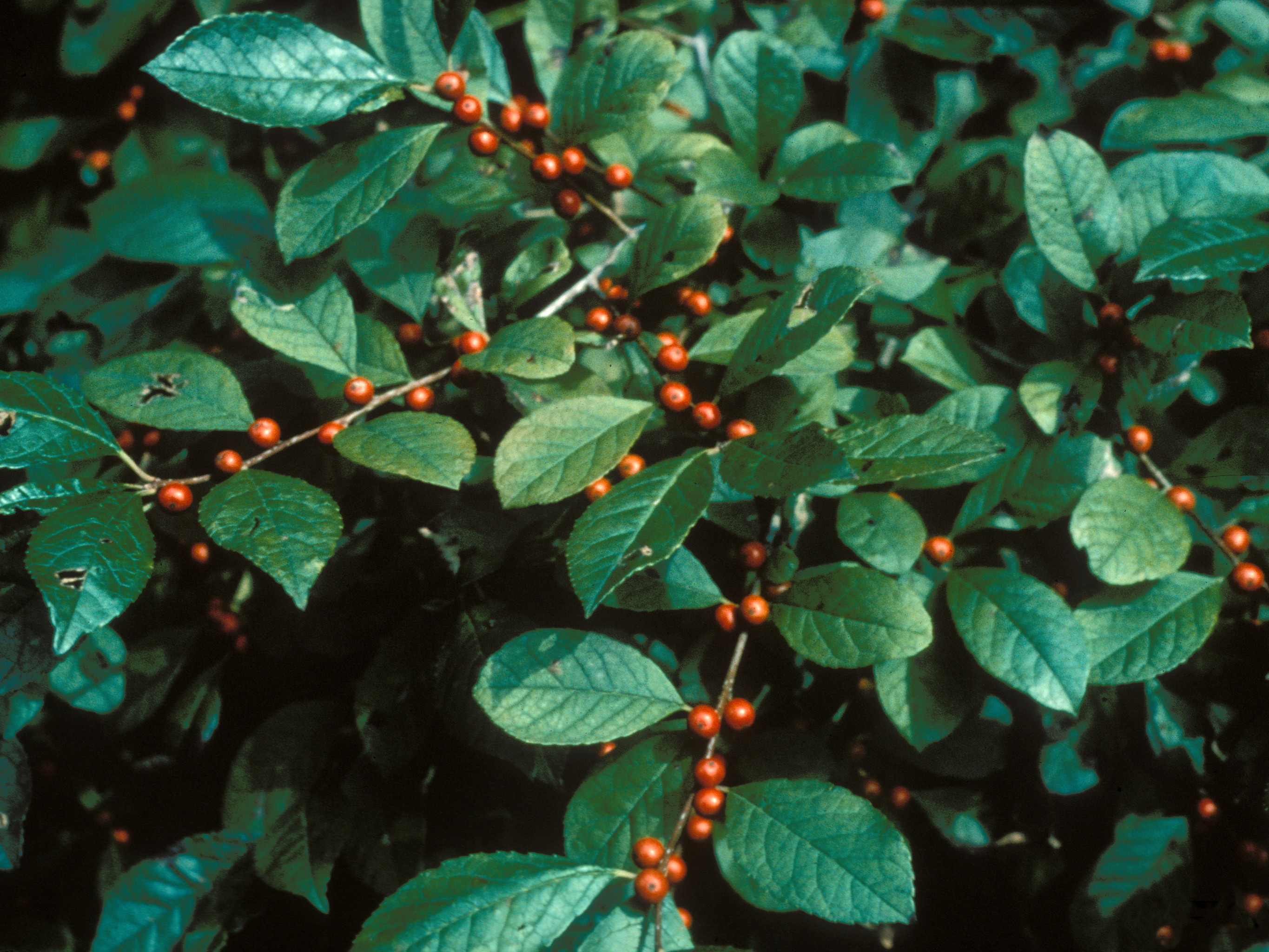 smooth winterberry Ilex laevigata (Pursh) Gray Descriptor: Foliage Description: Ilex laevigata; smooth winterberry Image type: Field Image location: United States